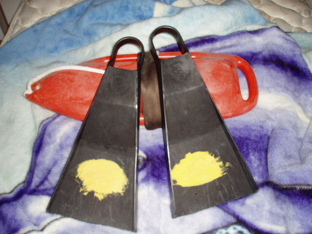 Swimfins